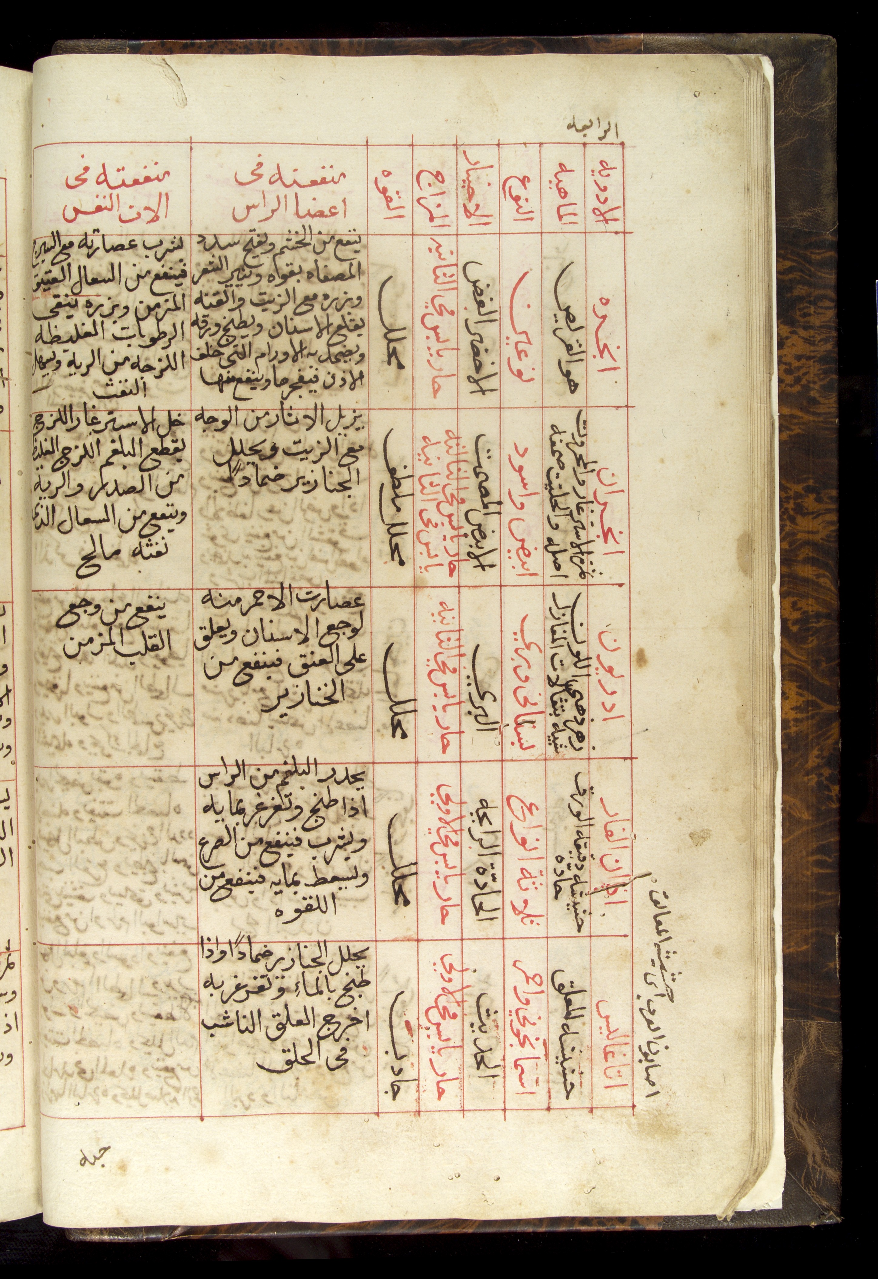 Chart from an Arabic Text, Kitab al-Mungih fit-t-Tadawi min Sunuf al-Amrad wa-s-Sakawi Asian Collection Keywords: Arabic